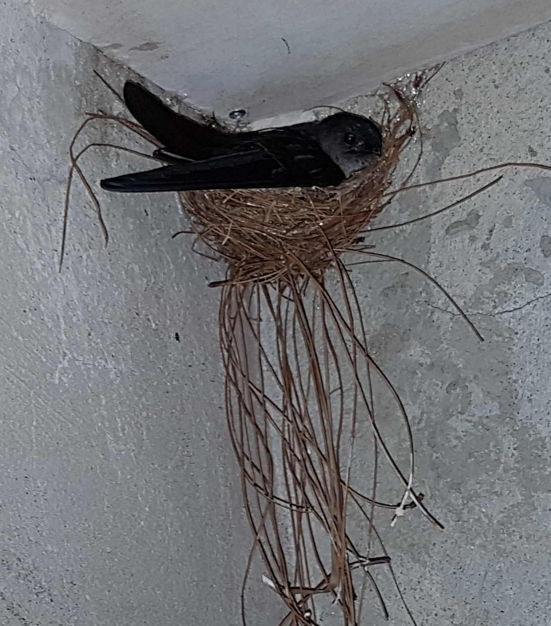 Ridgetop swiftlet (Collocalia isonota bagobo) nesting in Bukidnon, Mindanao, Philippines